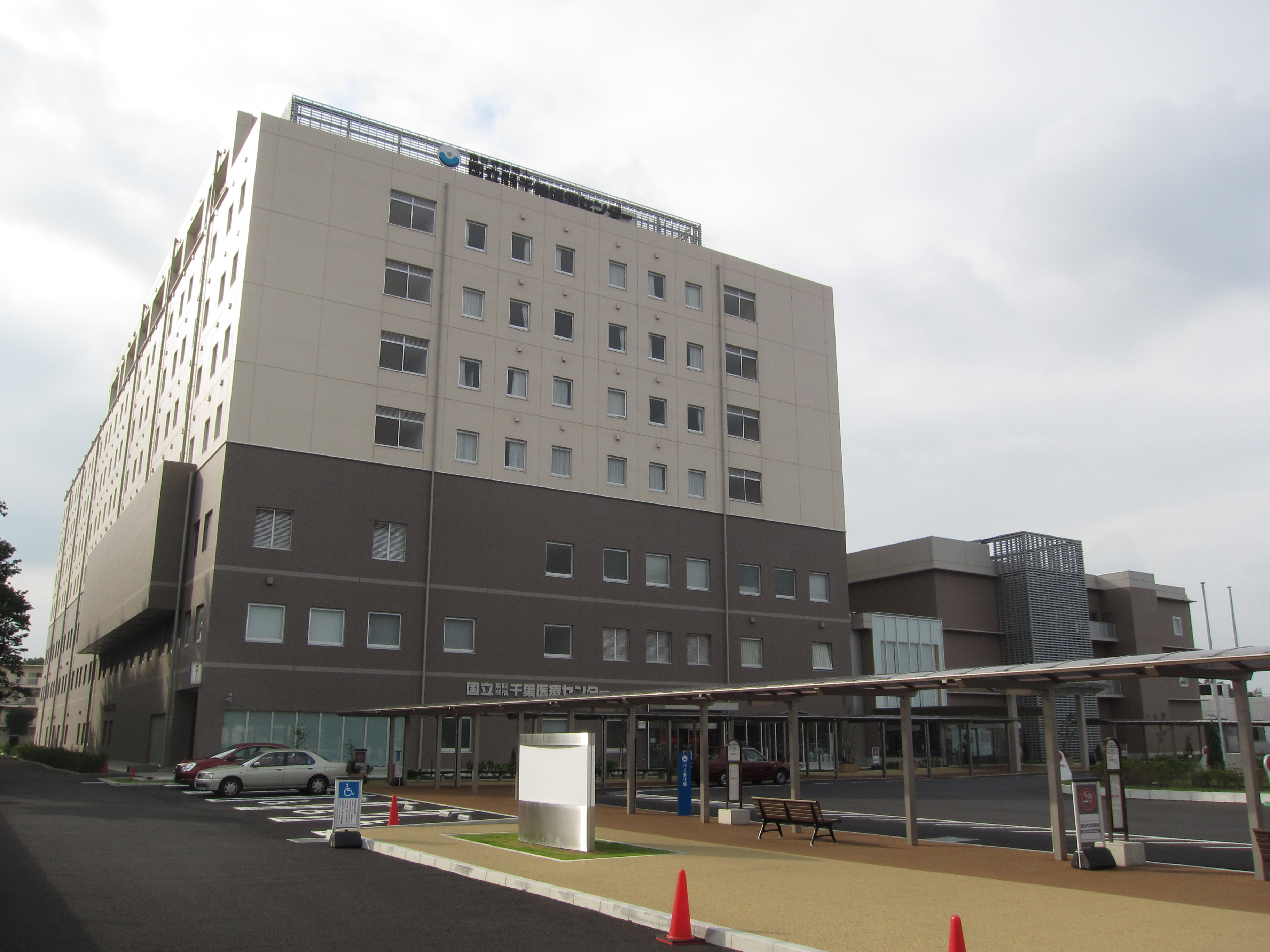 National Hospital Organization Chiba Medical Center